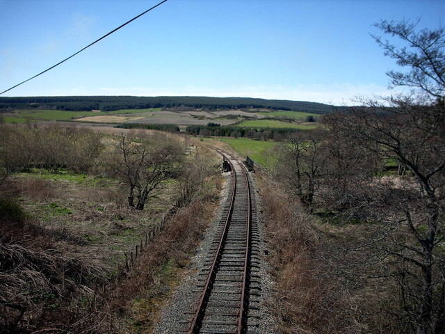 Keith and Dufftown Railway,near Douglasbrae. Looking Southwest on the line towards Dufftown. Tourist trains run in the summer months.